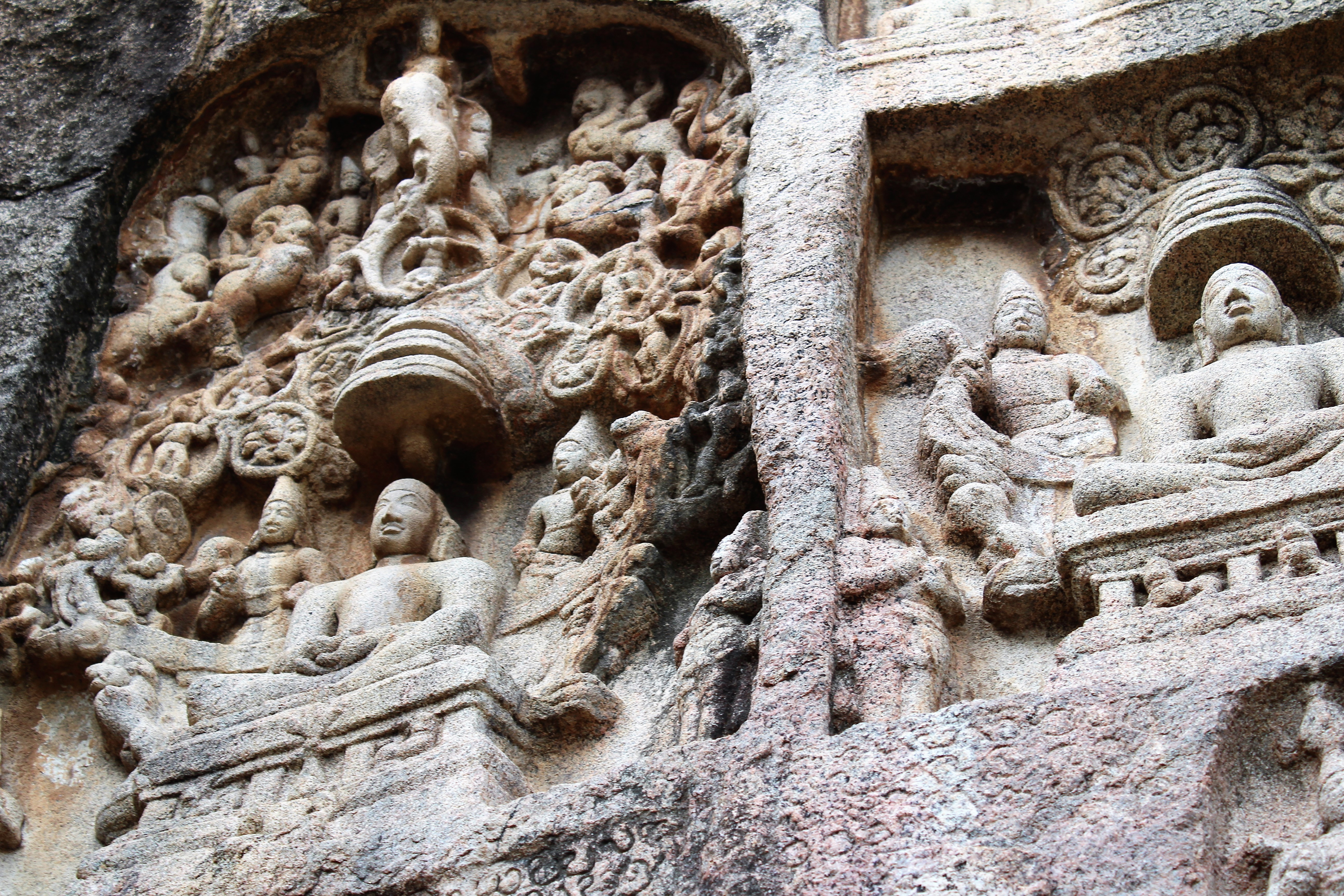 Kazhugumalai Jain beds